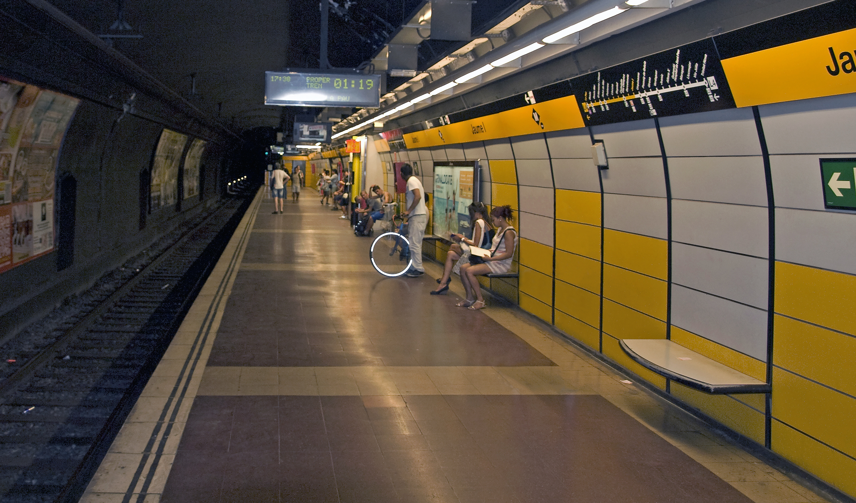 Jaume I station, line L4, southbound platform, Barcelona Metro